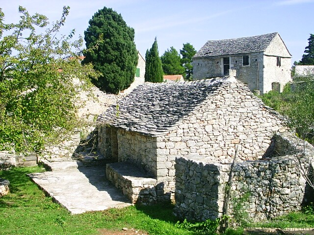 The village of Humac at the Hvar Island, Croatia